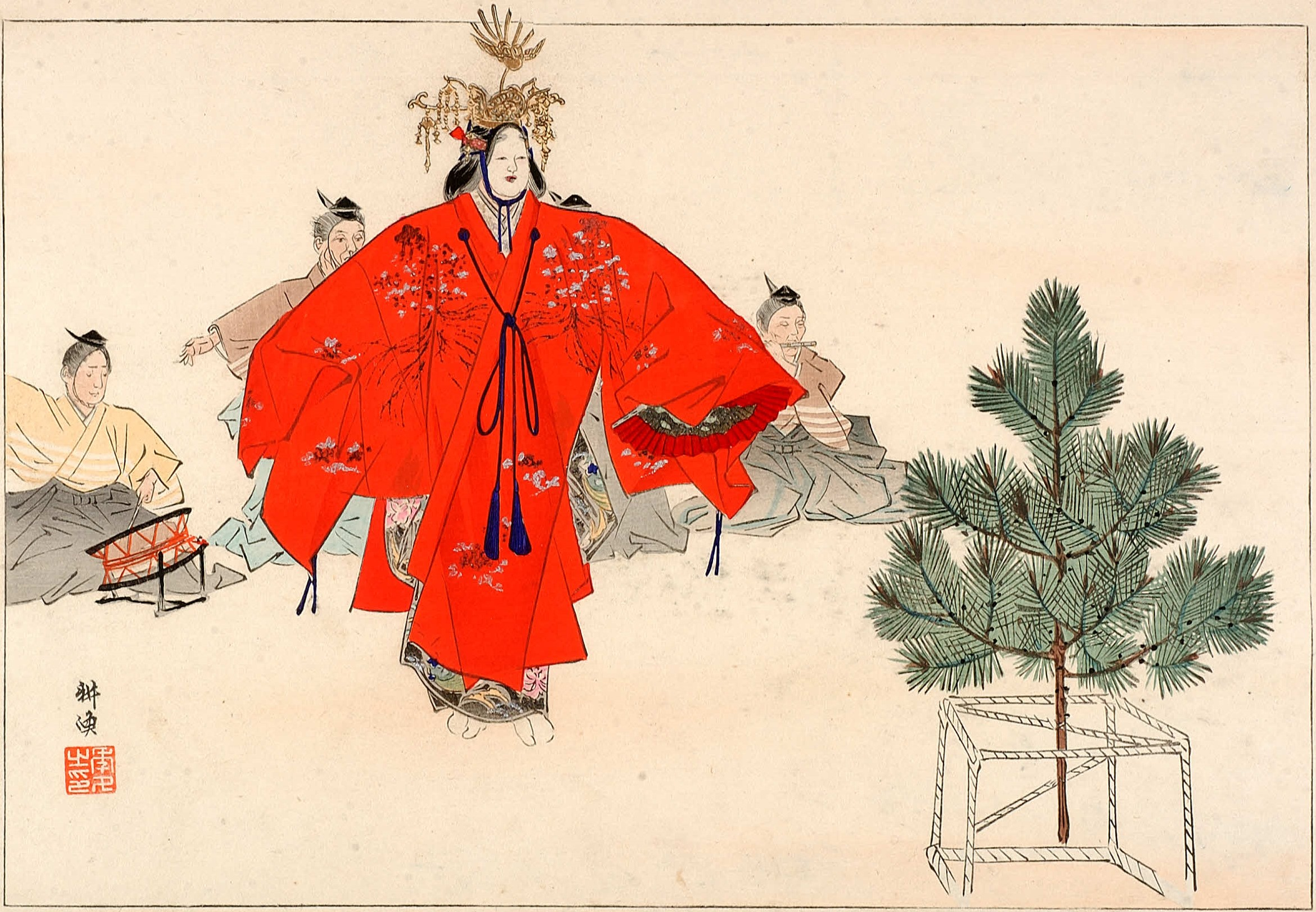 Scene from Nô-play "Hagoromo"